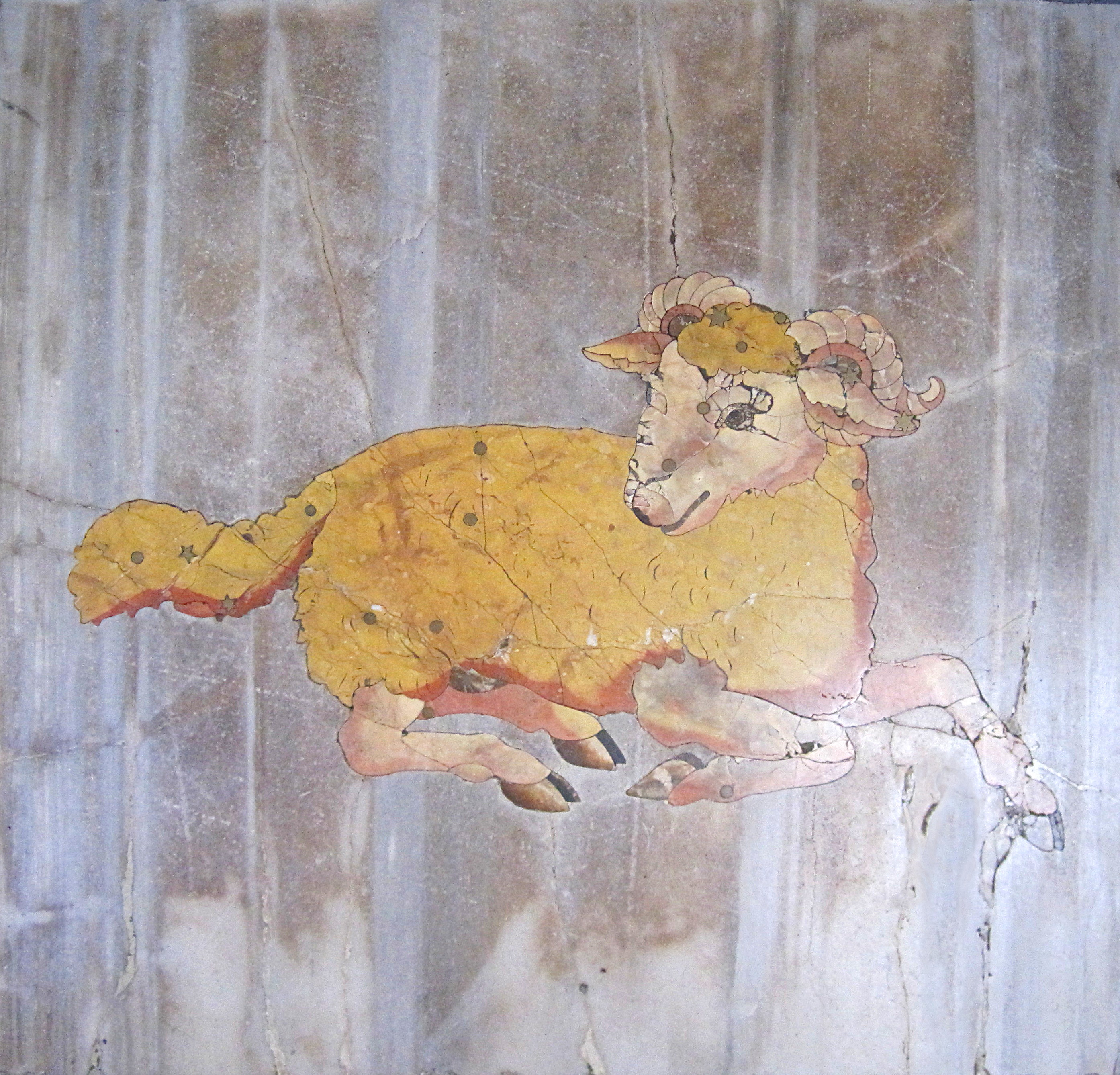 Zodiacal sign of the Aries on panel of white marble inlaid with colored marble (opus sectile) adorning one side of the Meridian solar line of Basilica Santa Maria degli Angeli e dei Martiri in Rome built by Francesco Bianchini (1702).